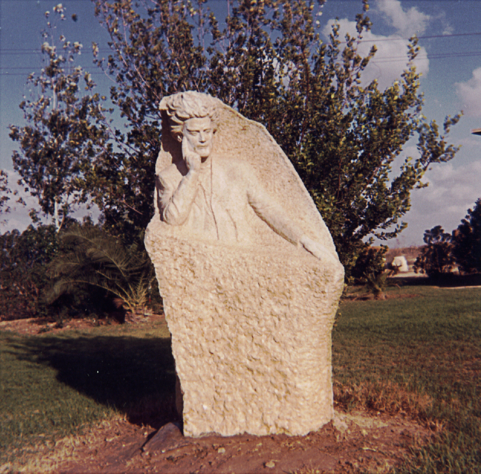 A photo of Ber Borochov statue, at Kibbutz Mishmar Hanegev at November 1964. The statue was made by the artist Mordechai Kafri in 1957, with the inspiration of Ber Borochov photo from 1900. Statue's hight was 2.50 meters, and it was made of a Nazareth bright stone. The photo was made by an unknown photographer at Mishmar Hanegev, Israel.